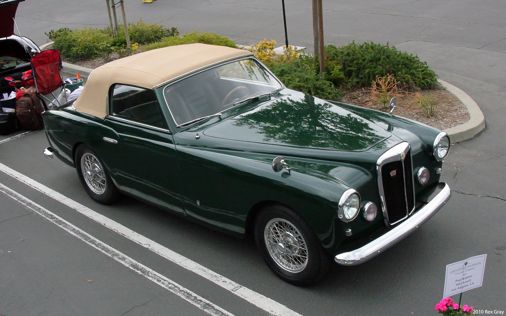 1953 Arnolt-MG Greystone Mansion Inaugural Concours d'Elegance, April 11, 2010